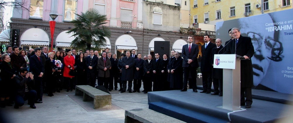 Sali Berisha at the naming of Ibrahim Rugova Street in Tirana